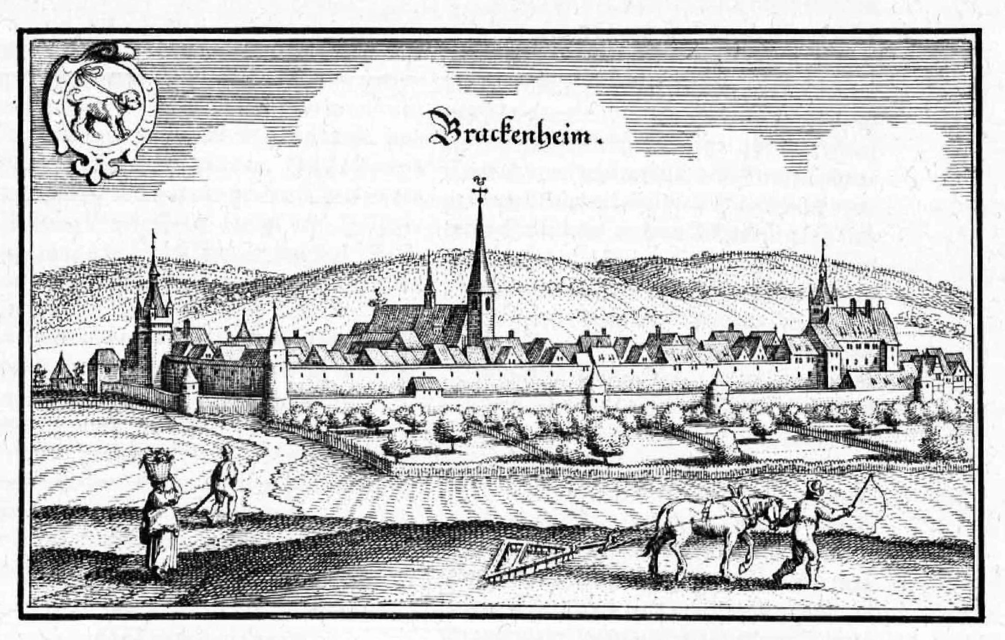 Brackenheim in about 1640. Illustration from Matthäus Merian's Topographia Sveviae, 1643/56